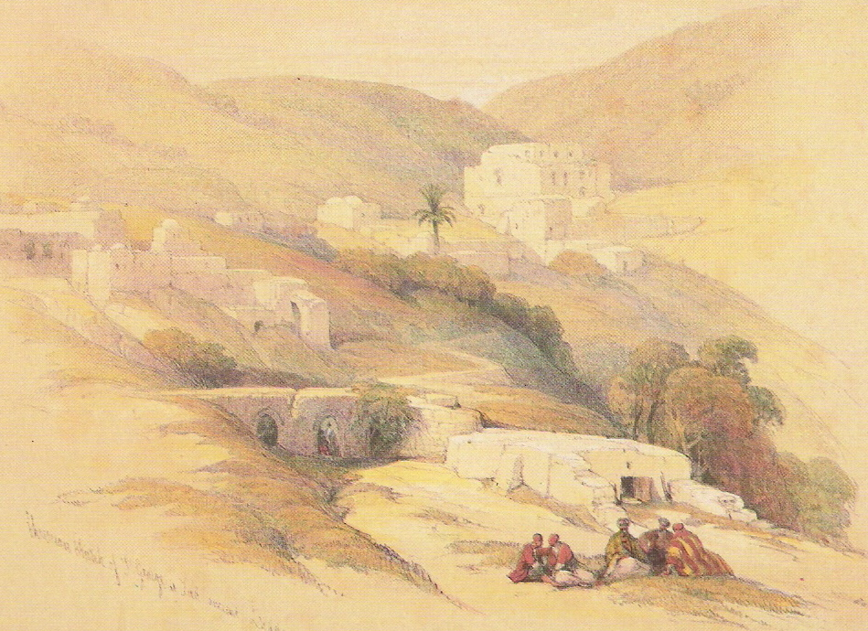 Christian Church of St. George at Lud, ancient Lydda, March 29 1839